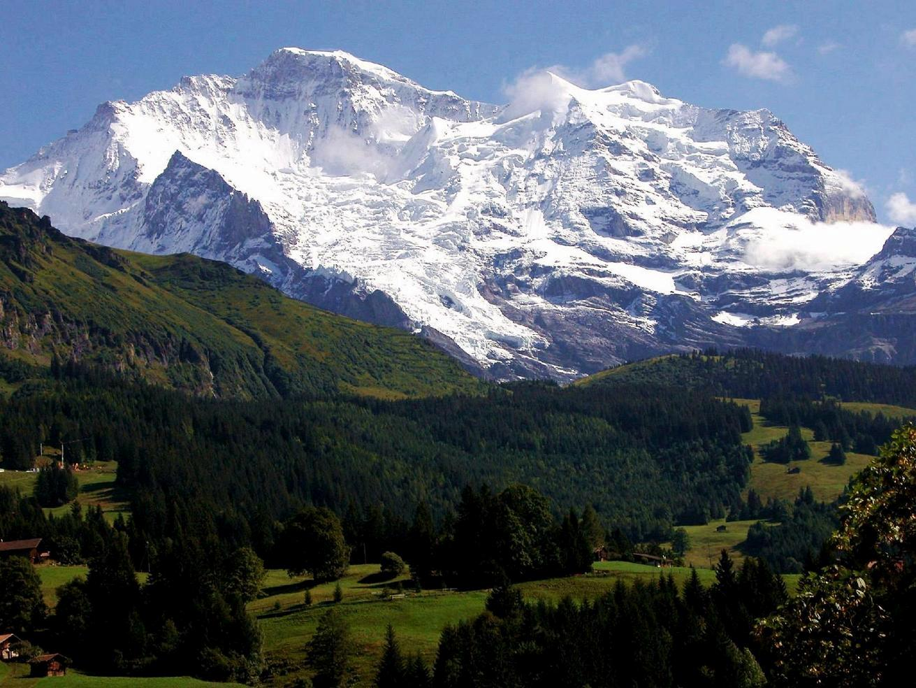 View of Jungfrau from north, Switzerland